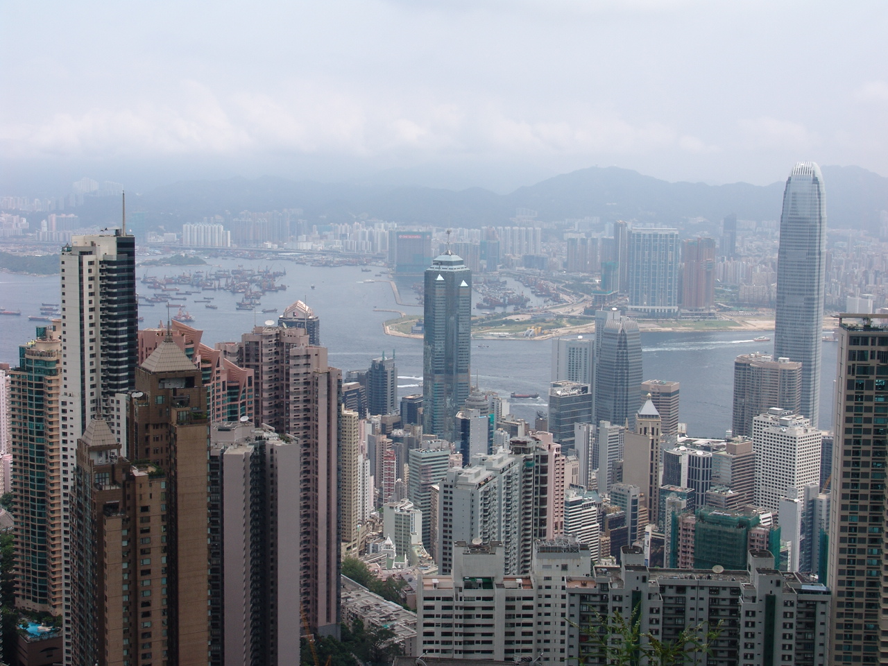 Hong Kong - The Peak - view of Hong Kong from The Peak - August 2005